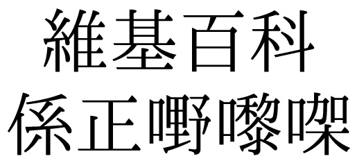 Written Cantonese, it says "Wikipedia is a good thing".